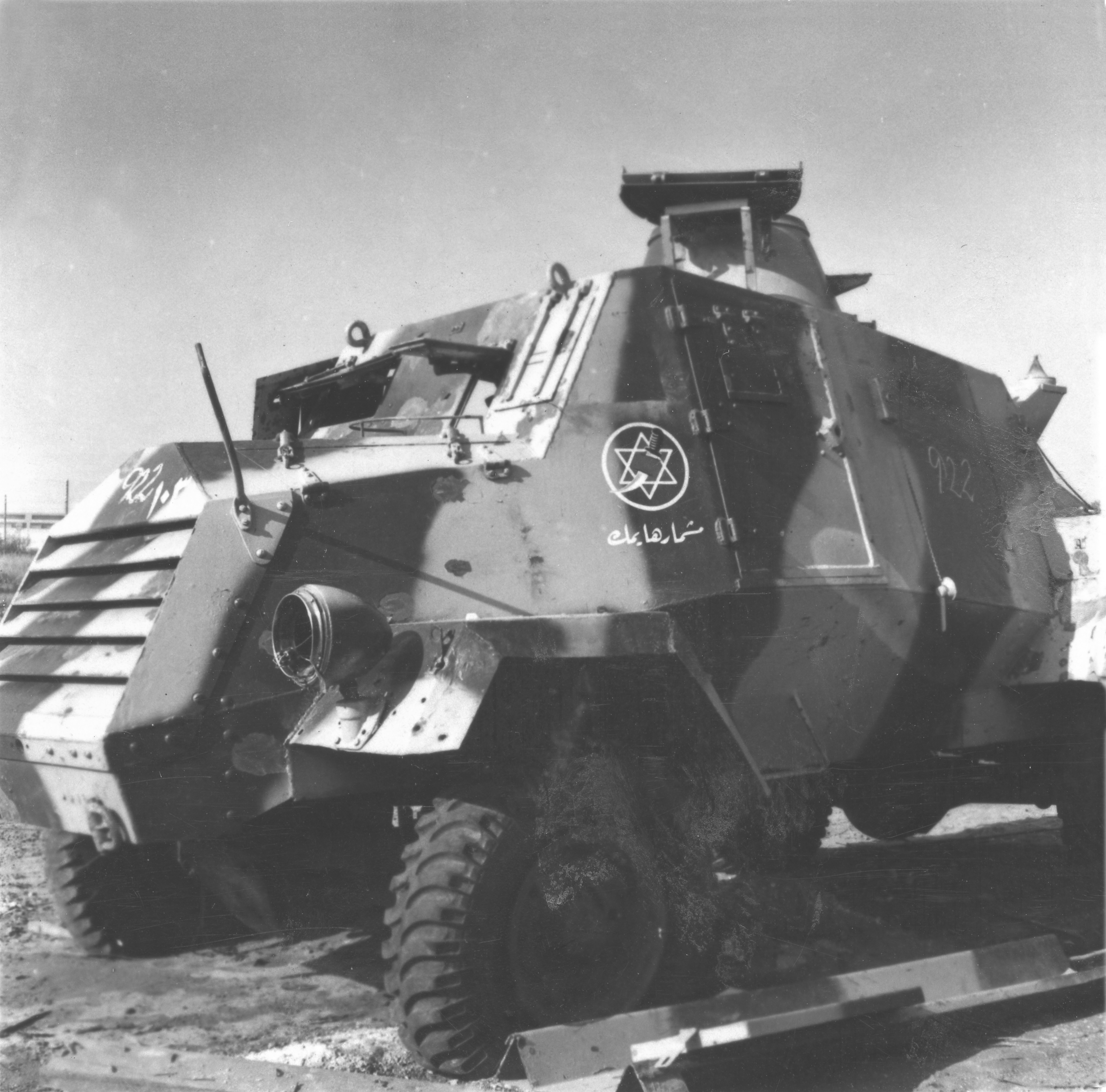 An armored car, captured from the ALA (Arab Liberation Army- Kaukji's army) in 1948. The car still carries the ALA emblem, a dagger stabbing a Star of David. It was captured after the ALA defeat in the Galilee and his flight from Palestine campaign. The updated Graphic lab view is that the photo is probably not doctored, based on this good quality image. Previously, based on a suggested by Graphics Lab editors that the dagger and star emblem in this photo may have been a doctored image. This image is a better quality version of the previous one: The same car, but without the camouflage painting, is seen here: More about this Otter Light Reconnaissance Car.